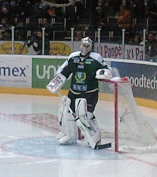 Henrik Karlsson, icehockeyplayer